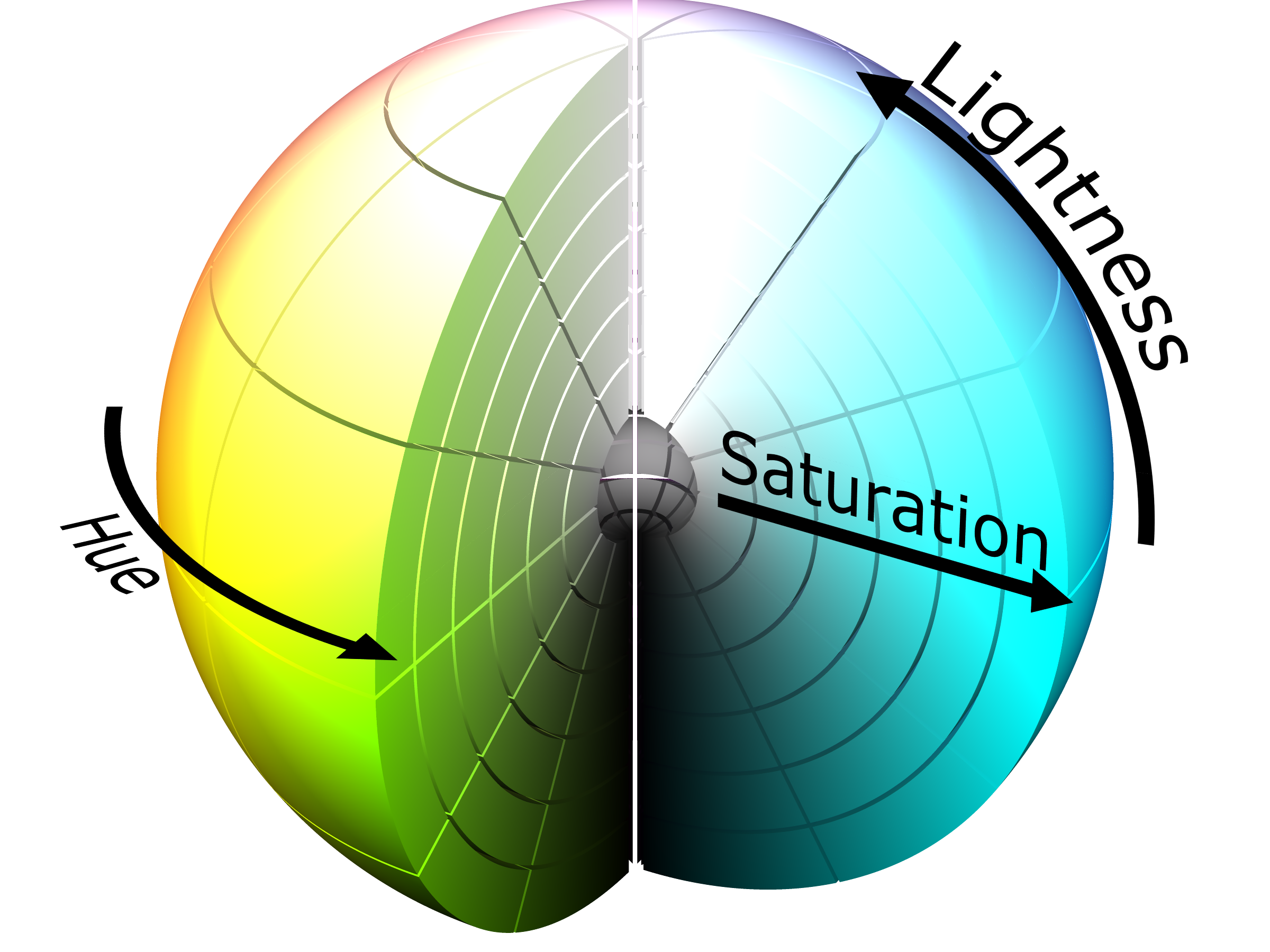 The HSL color space mapped to a sphere, with corner cut-away shown. Lightness corresponds with the sphere's azimuth. Saturation proceeds outward from the center in all directions along the sphere's radius. This image is original research.